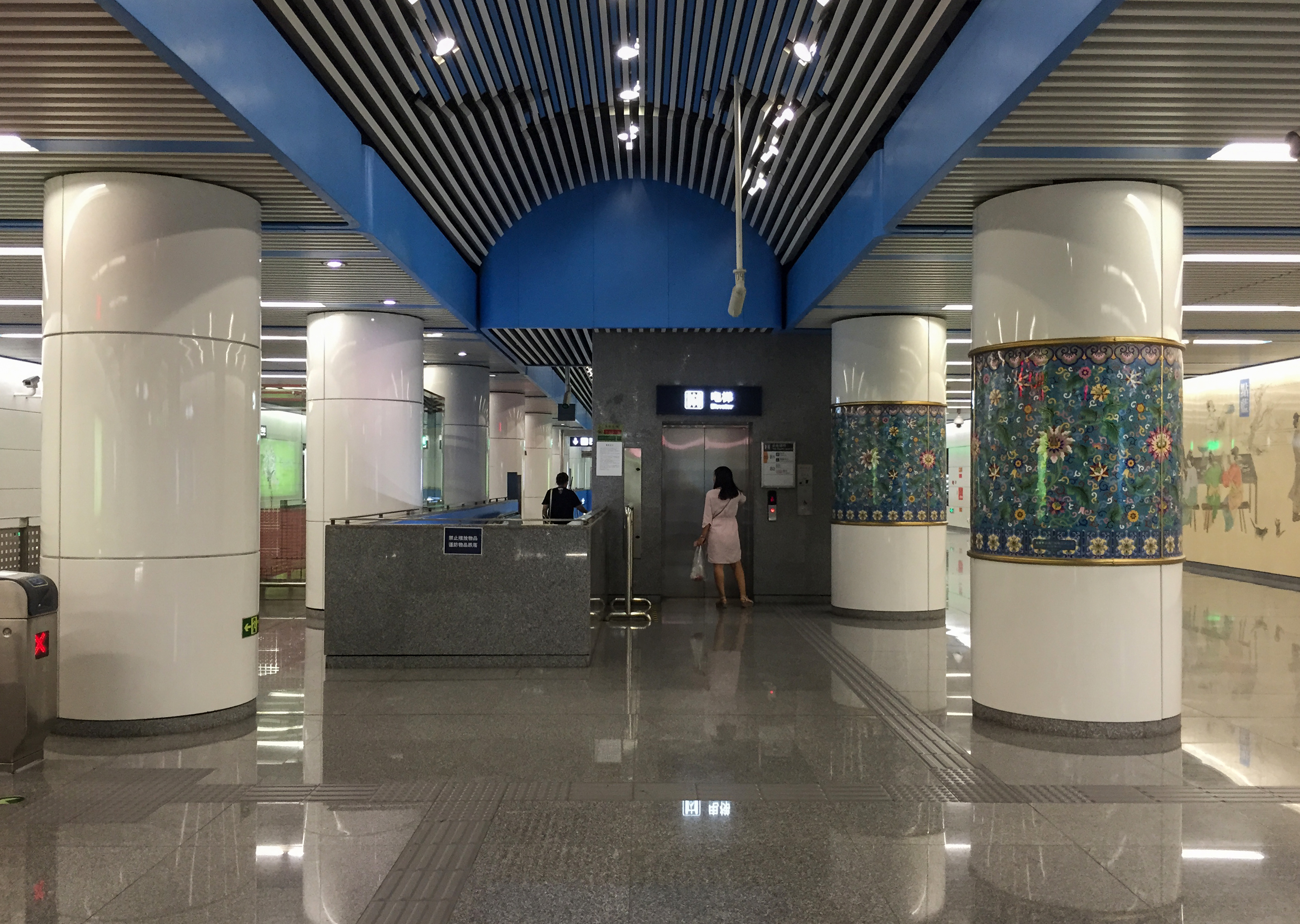 Some of the pillars are embedded with cloisonné, as its name implies. This station has nothing to do with Baotou-Lanzhou Railway.